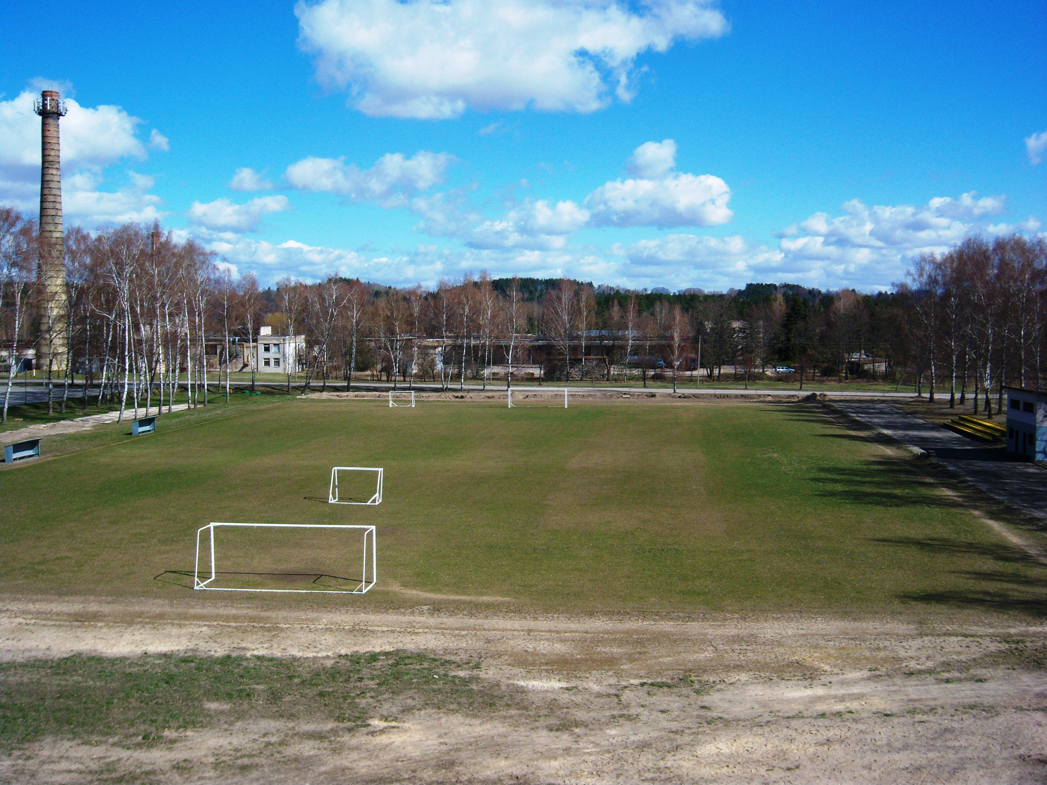 Football stadium, Prienai, Lithuania